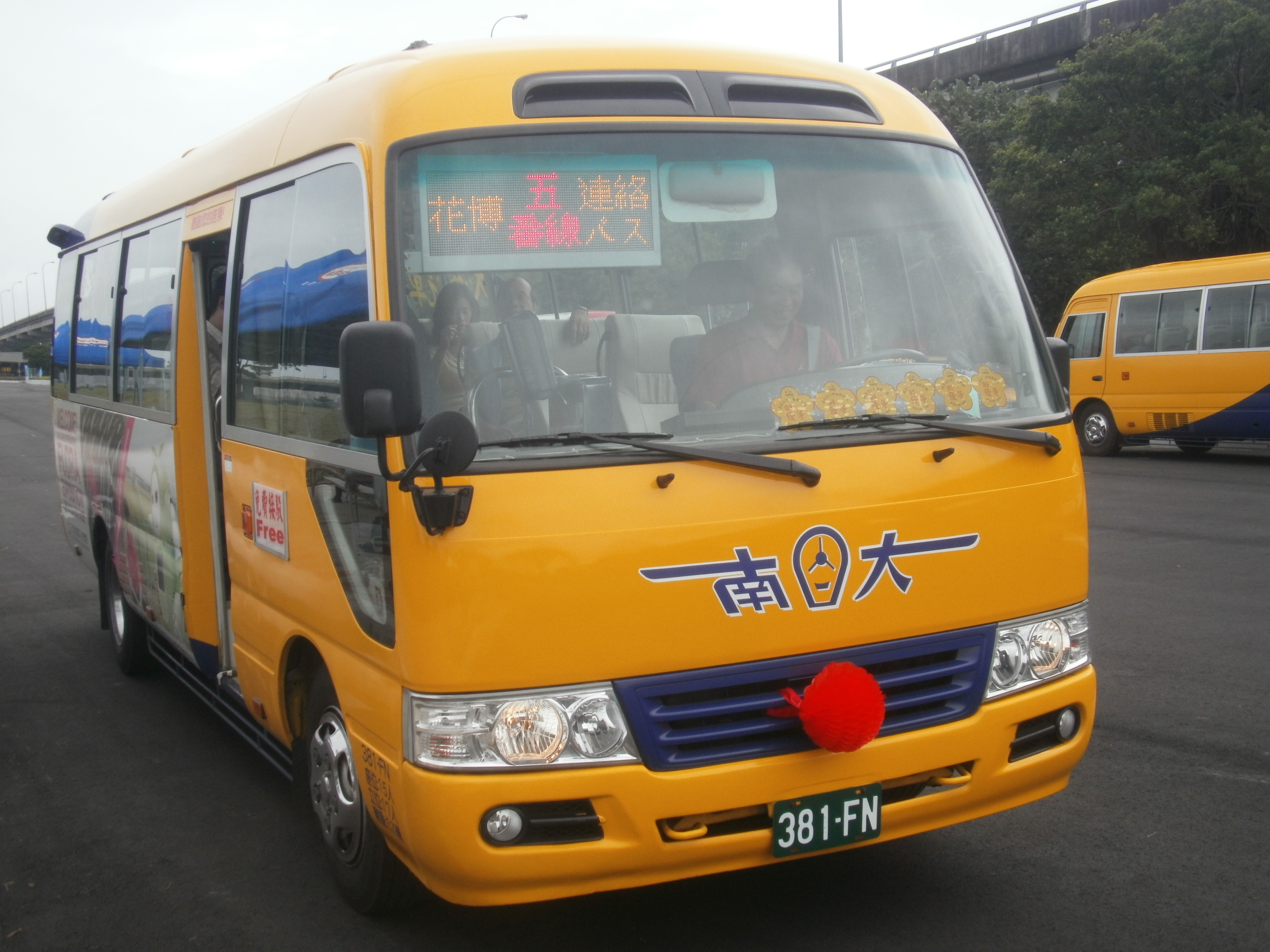 Expo Bus Line5